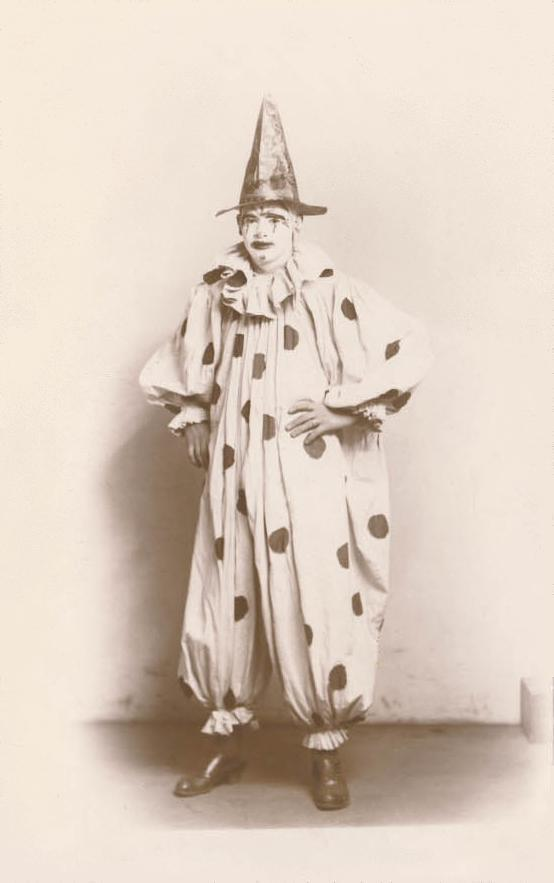 A clown; from a 1907 postcard.